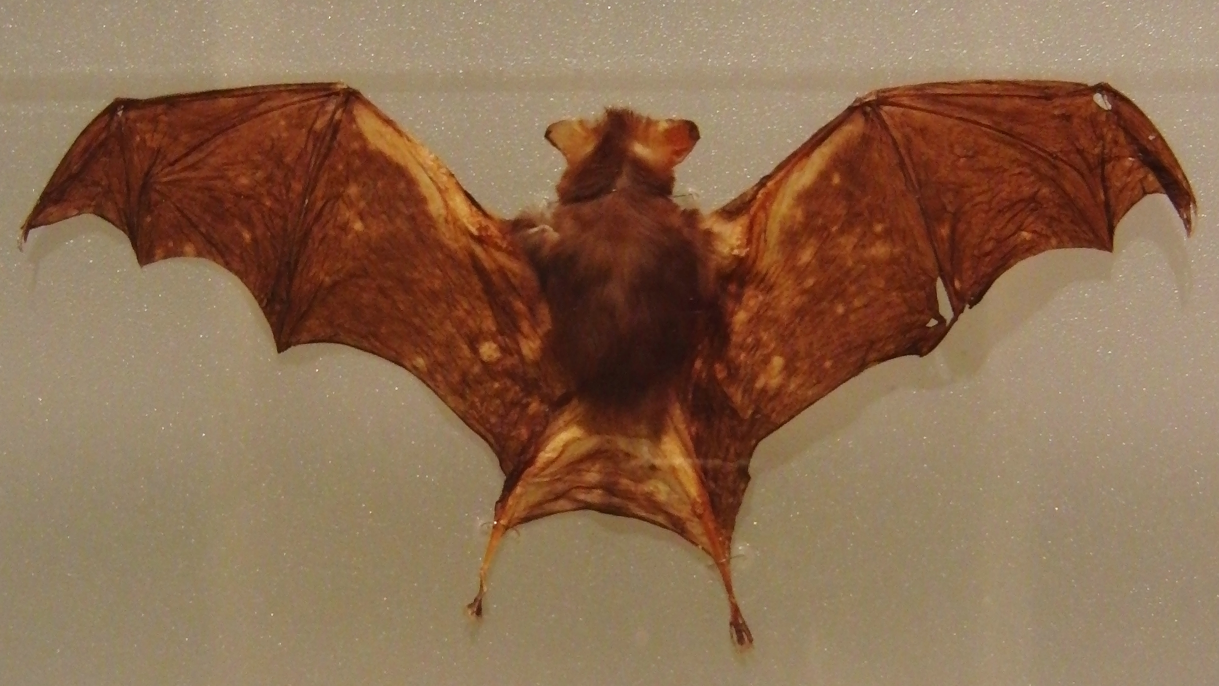 Stuffed specimen of Kitti's hog-nosed bat (Craseonycteris thonglongyai). Exhibit in the National Museum of Nature and Science, Tokyo, Japan.